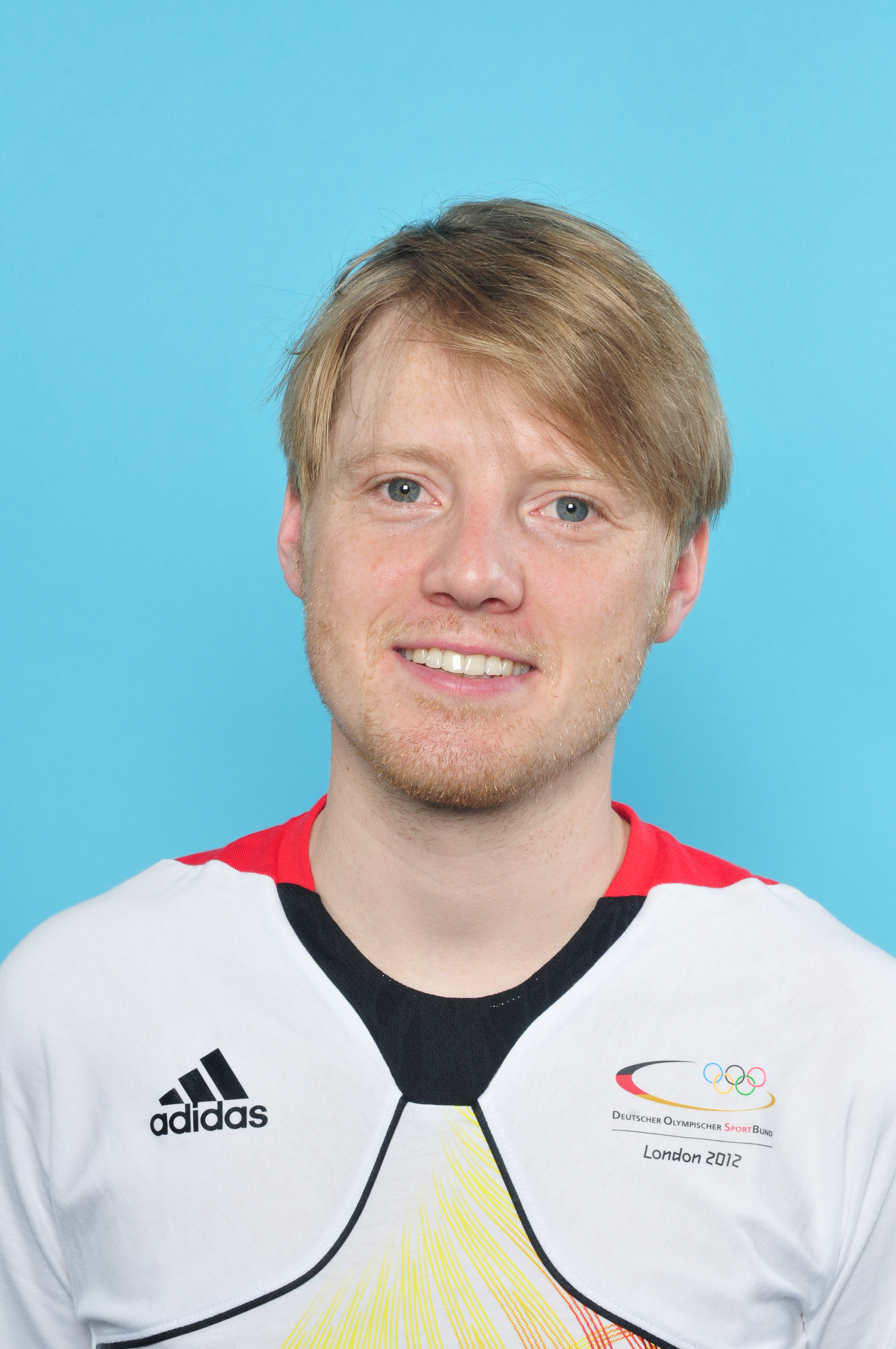 Tino Mohaupt, member of the german team of shooting sport Olympia 2012 London